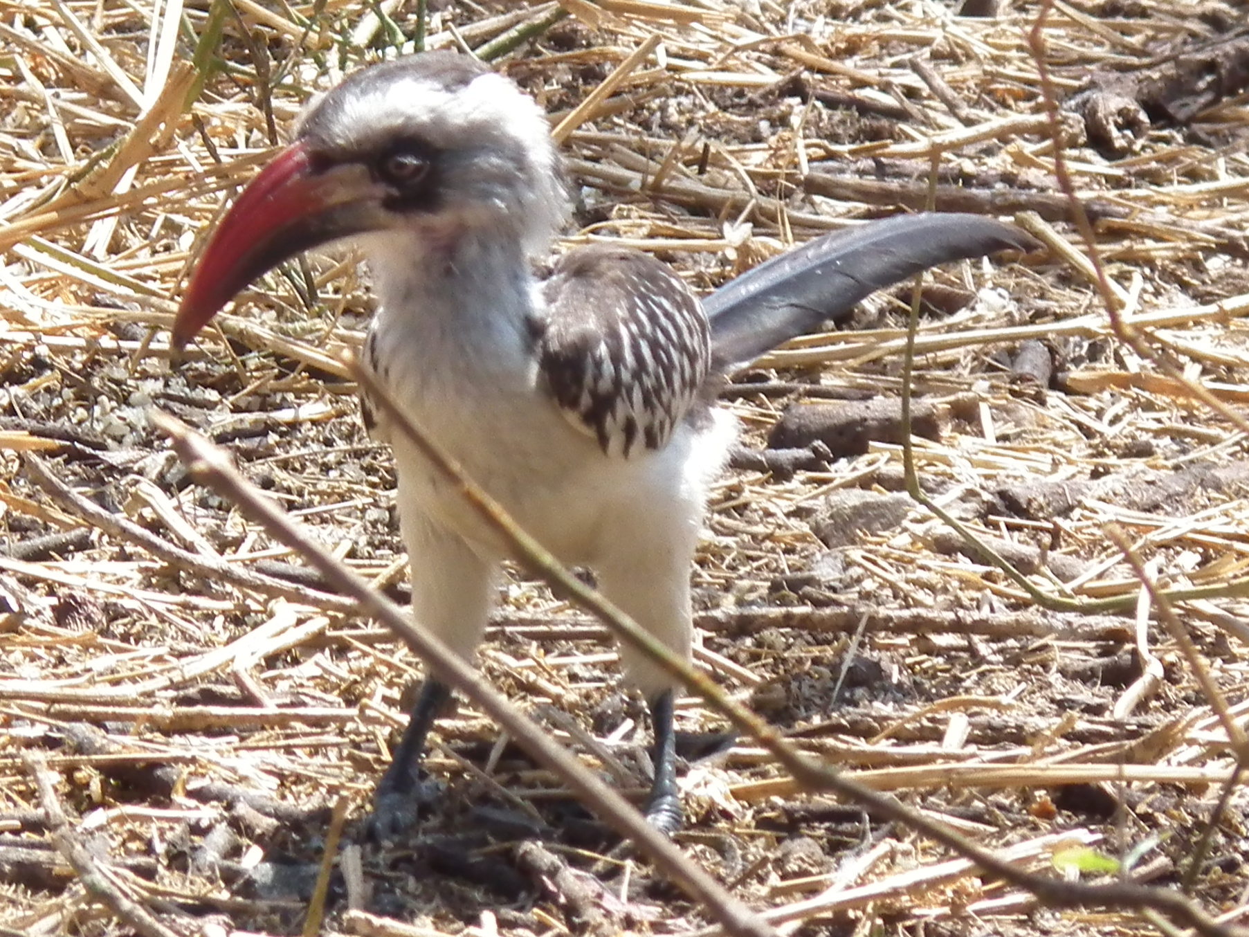 A Tanzanian Red-billed Hornbill in the Serengeti National Park, Tanzania